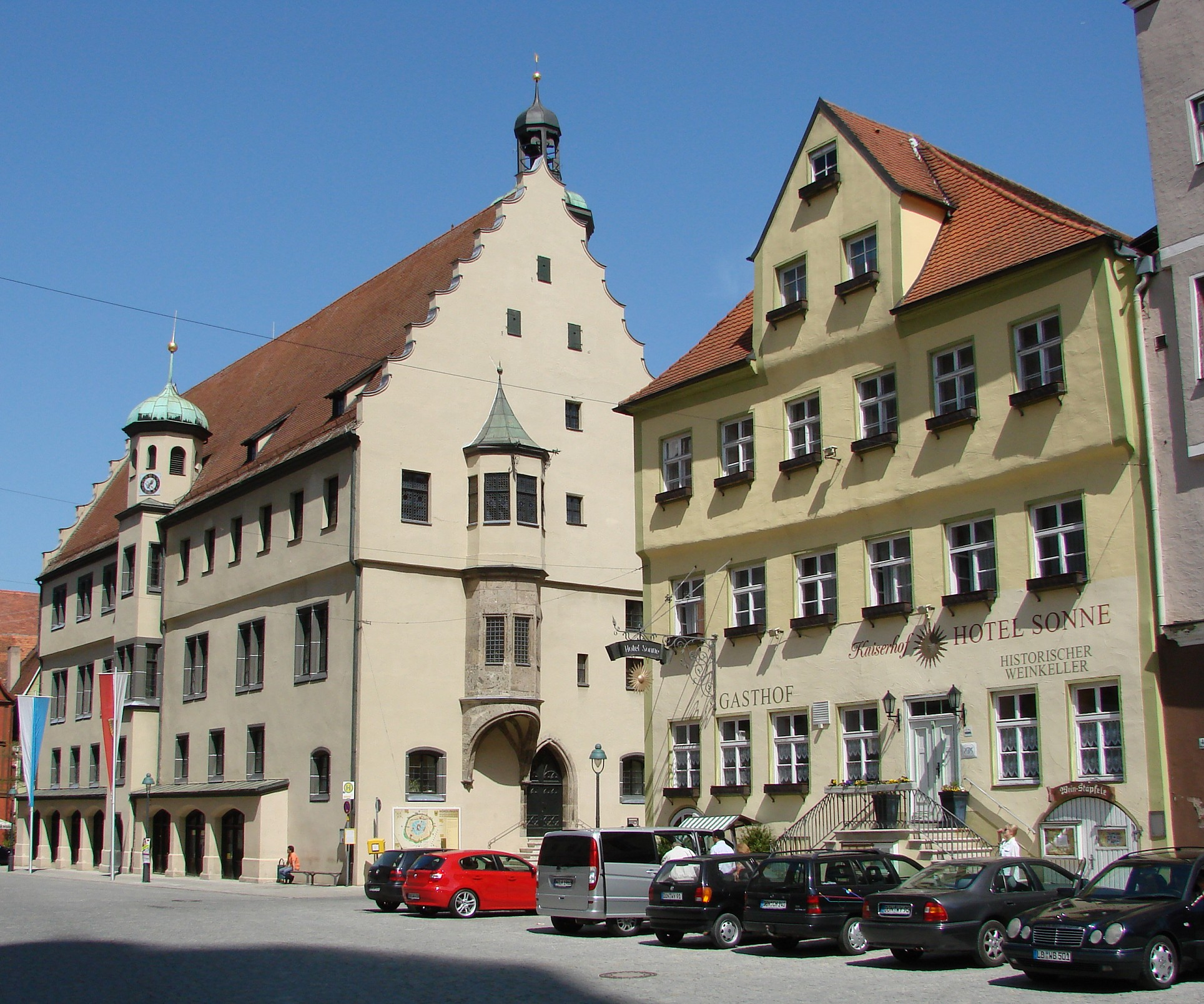 Nördlingen, Germany, town hall and Hotel zur Sonne, former hostel for noblepersons